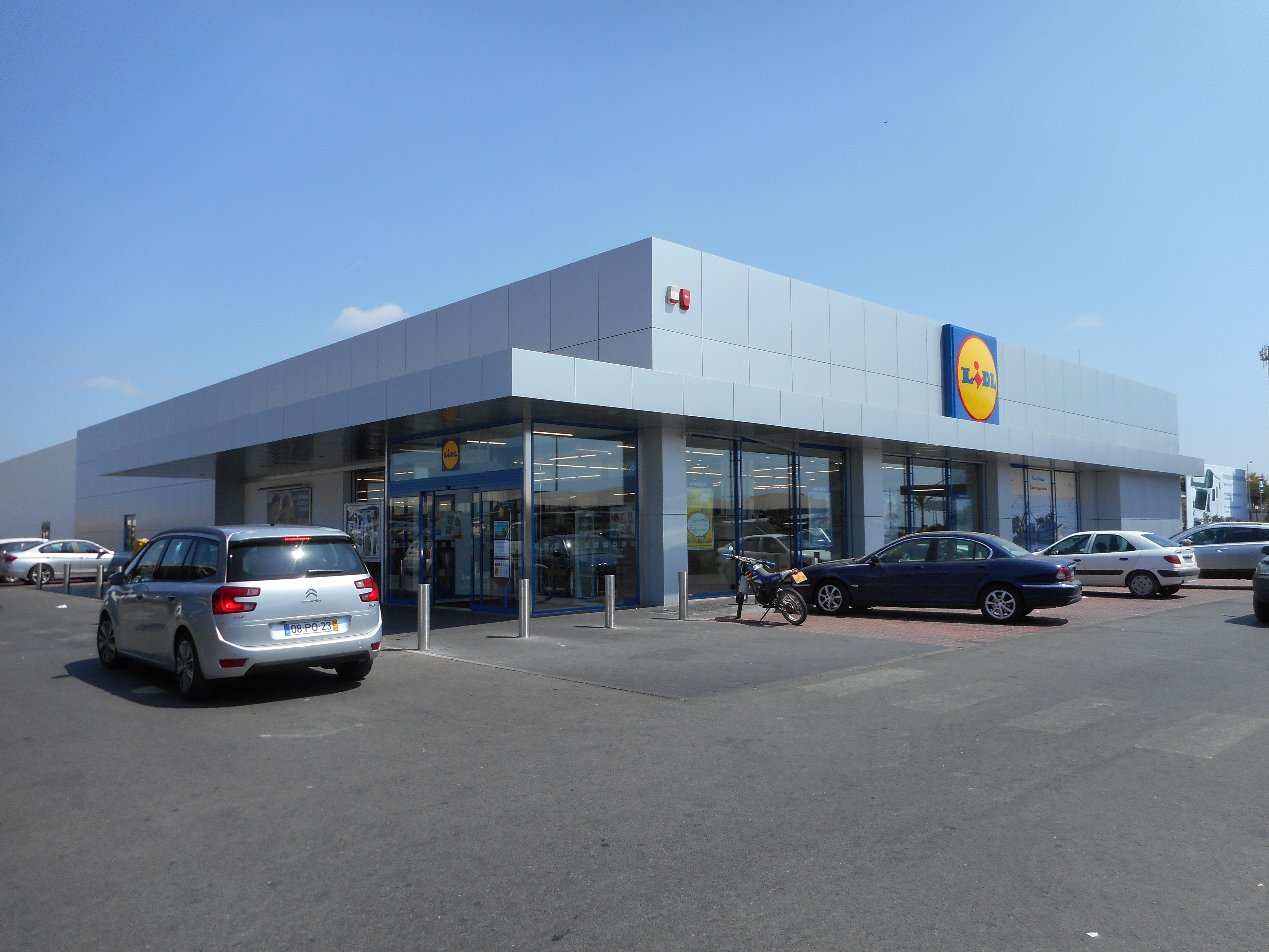 Lidl supermarket in the city of Albufeira, Algarve, Portugal. The store is located on the Avenida dos Descobrimentos on the north western side of the city